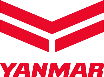 Yanmar logo from 2013